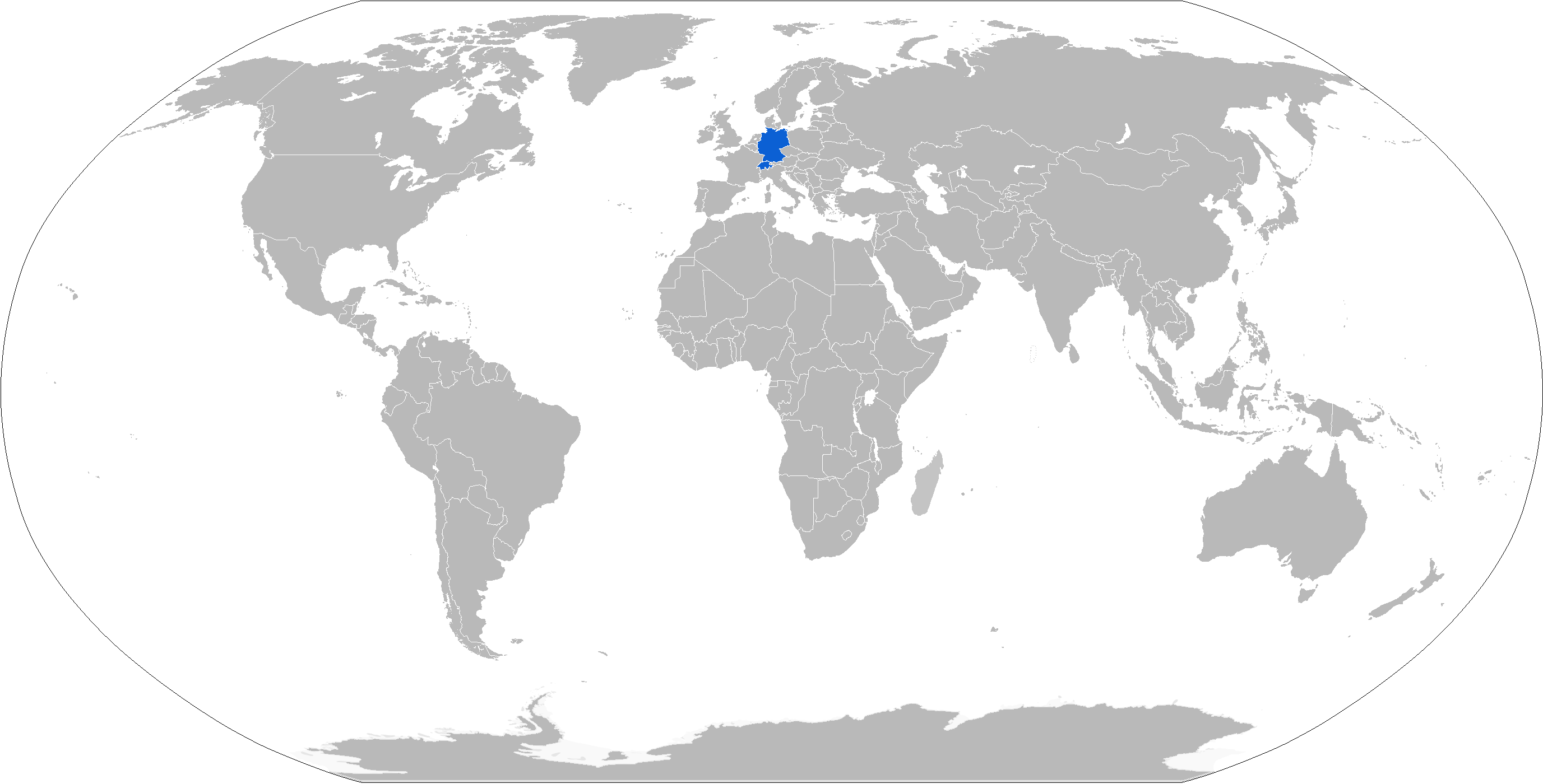 Map with Rheinmetall YAK operators in blue